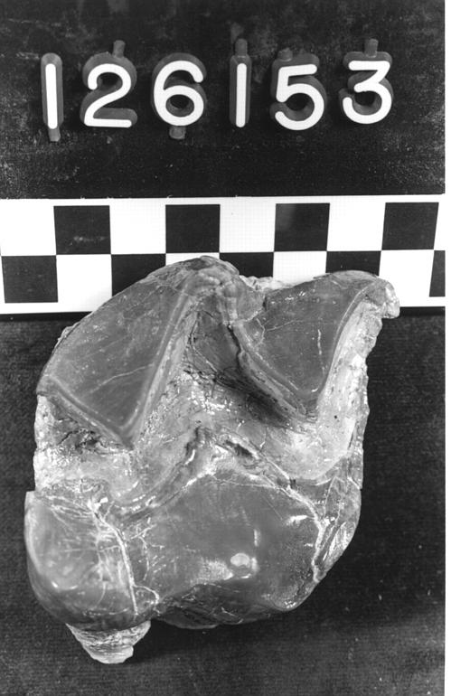 Protitanops clarnensis, University of California Museum of Paleontology